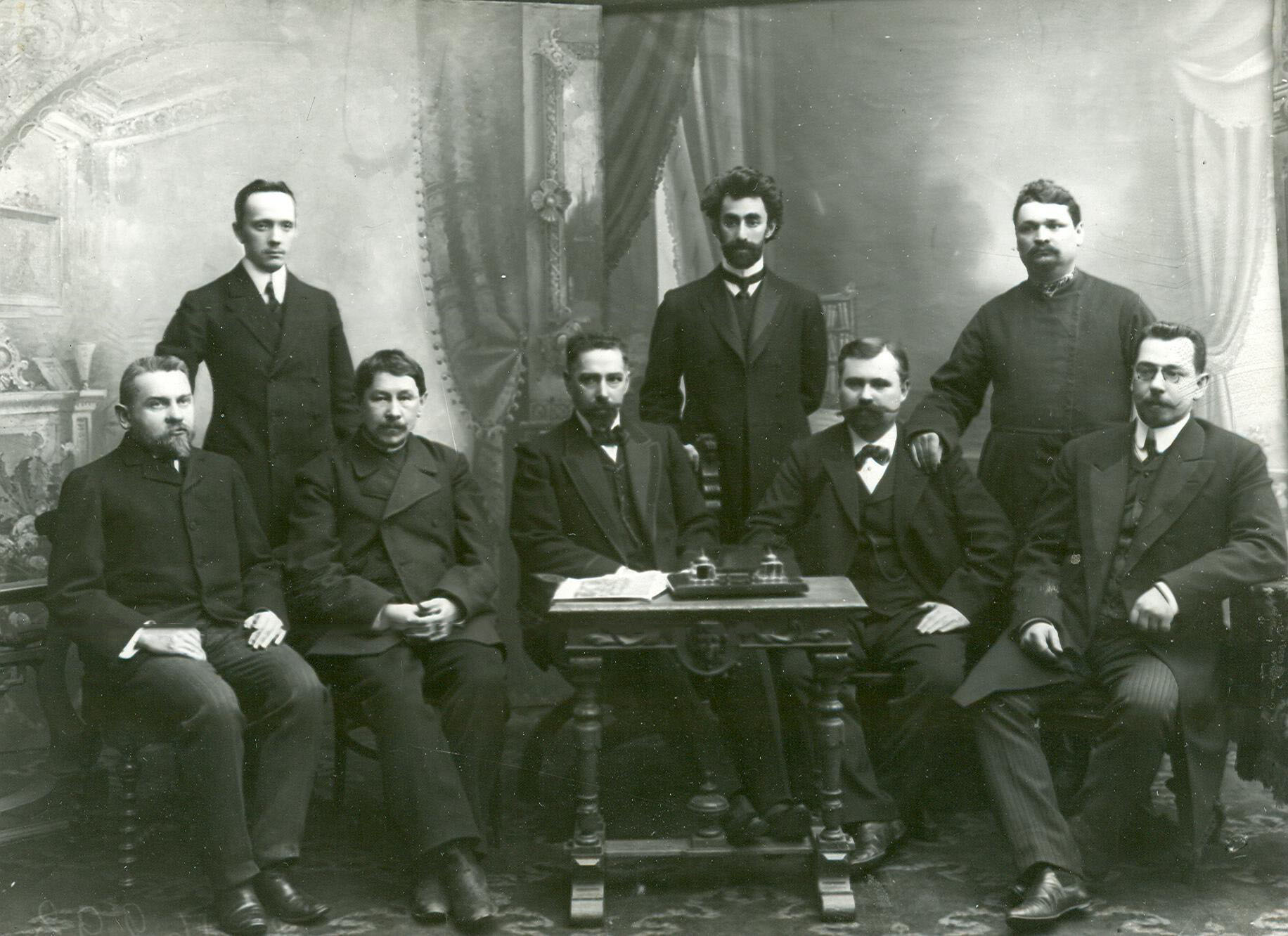 The members of the third Russian State Duma from Chernigov Governorate, 1907-1912.